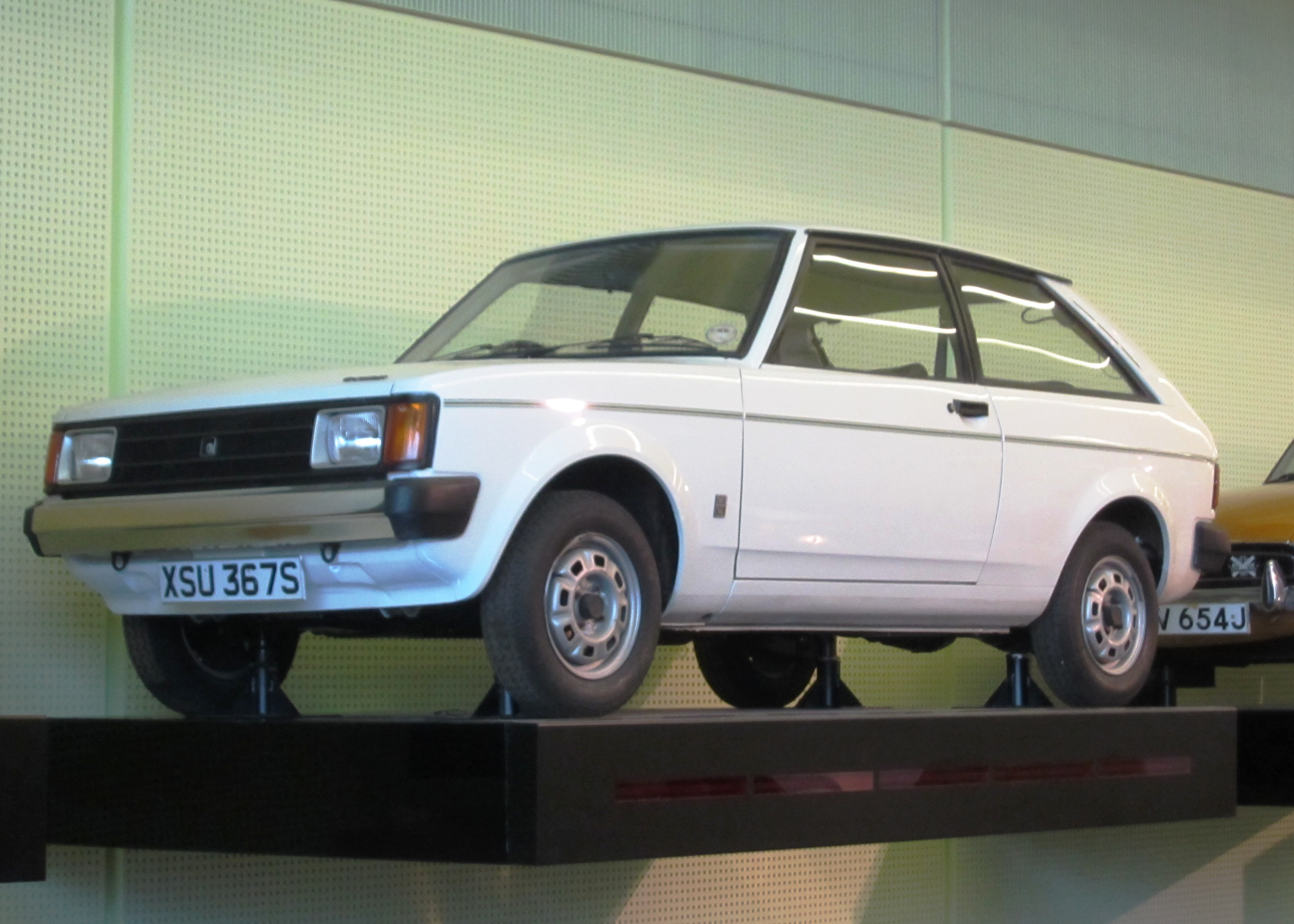 Chrysler Sunbeam (one of the very early ones - registered several years BEFORE they rebadged it as the Talbot Sunbeam) at Glasgow Transport Museum